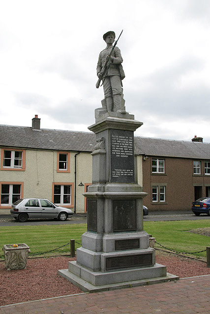 Newcastleton War Memorial This impressive memorial is situated in Douglas Square.